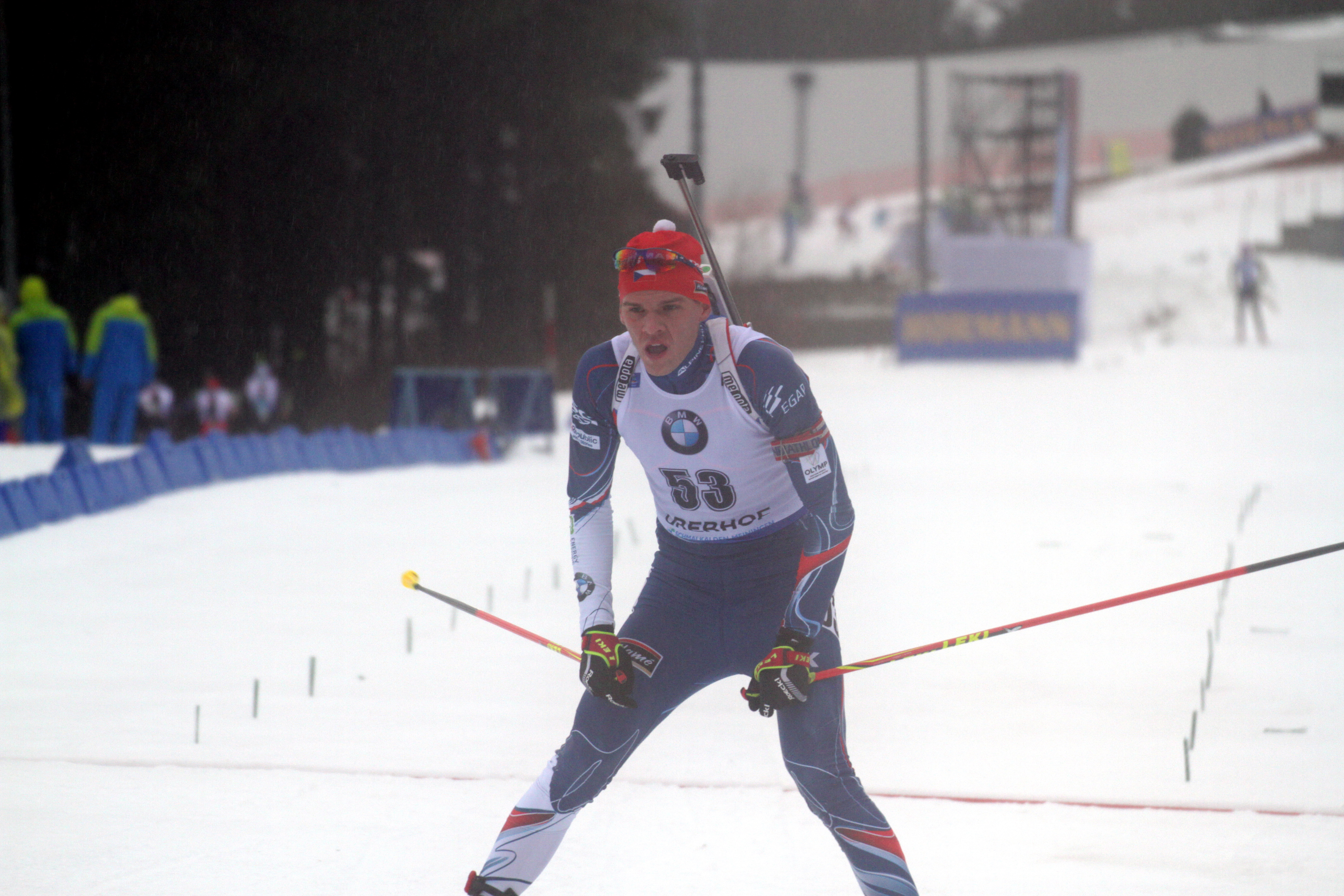 2018 Oberhof Biathlon World Cup - Sprint Men